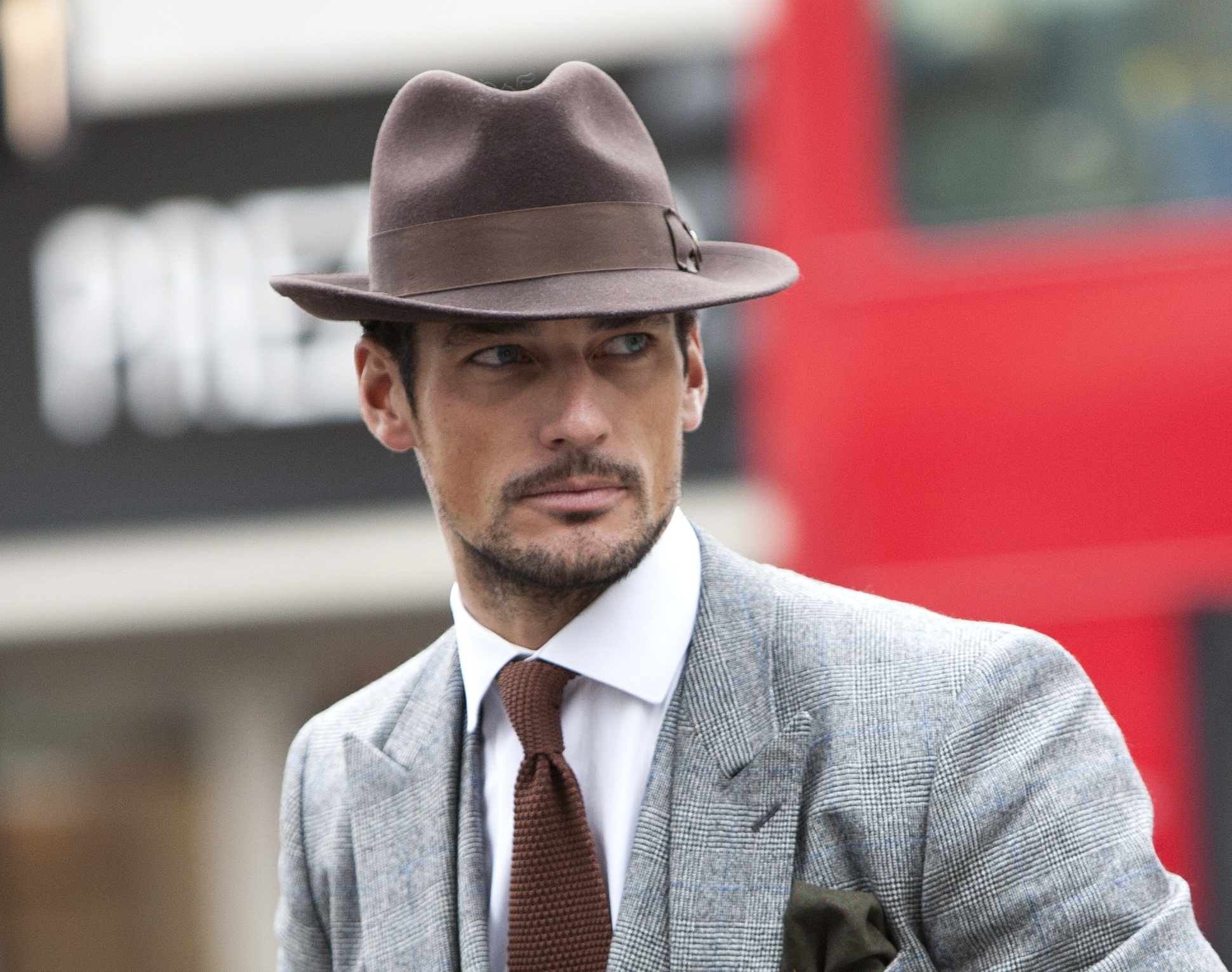 David Gandy street style, London Collections: Men (2013). Cropped